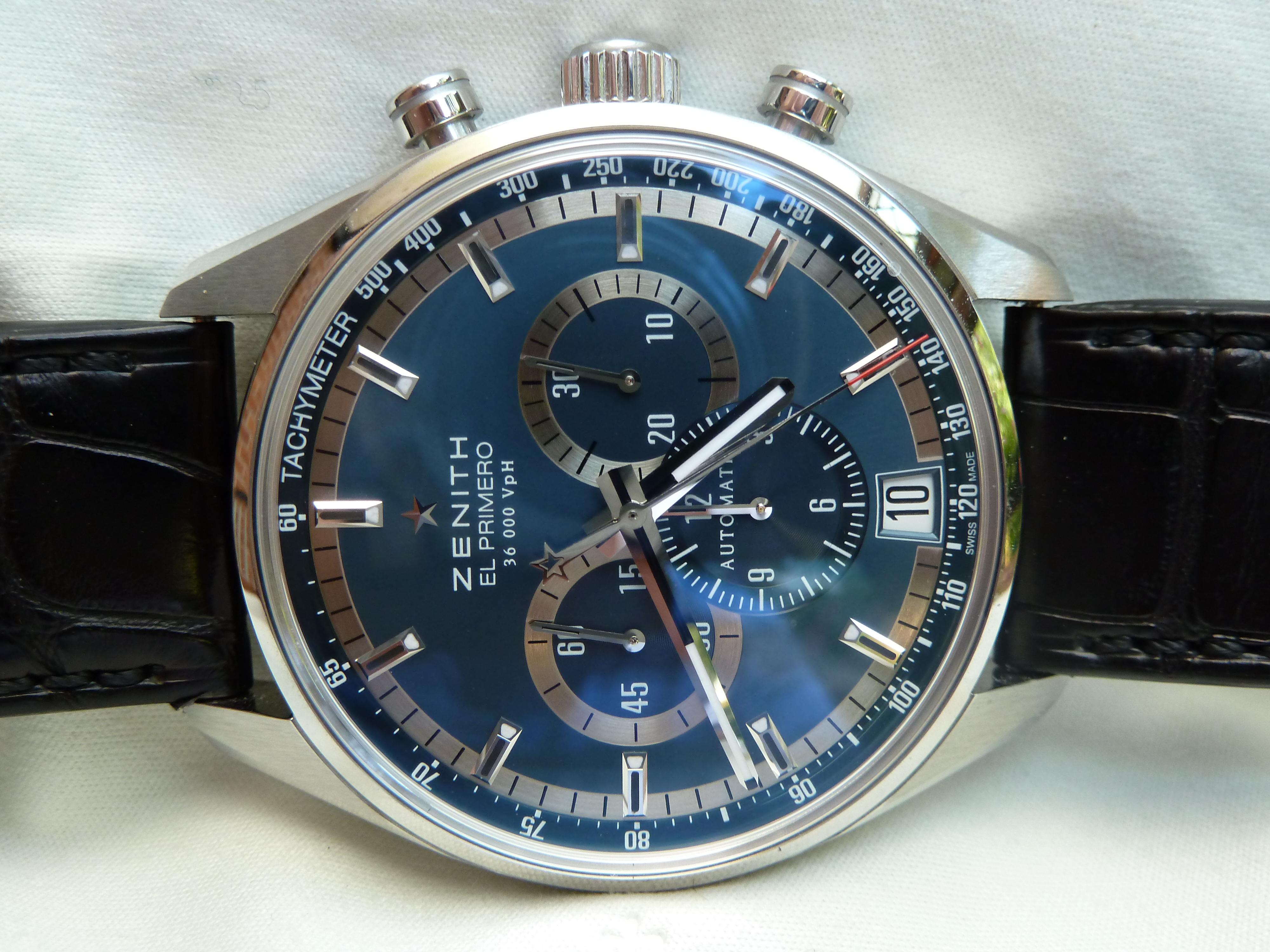 Zenith El Primero 36000 VpH Tribute to Charles Vermot